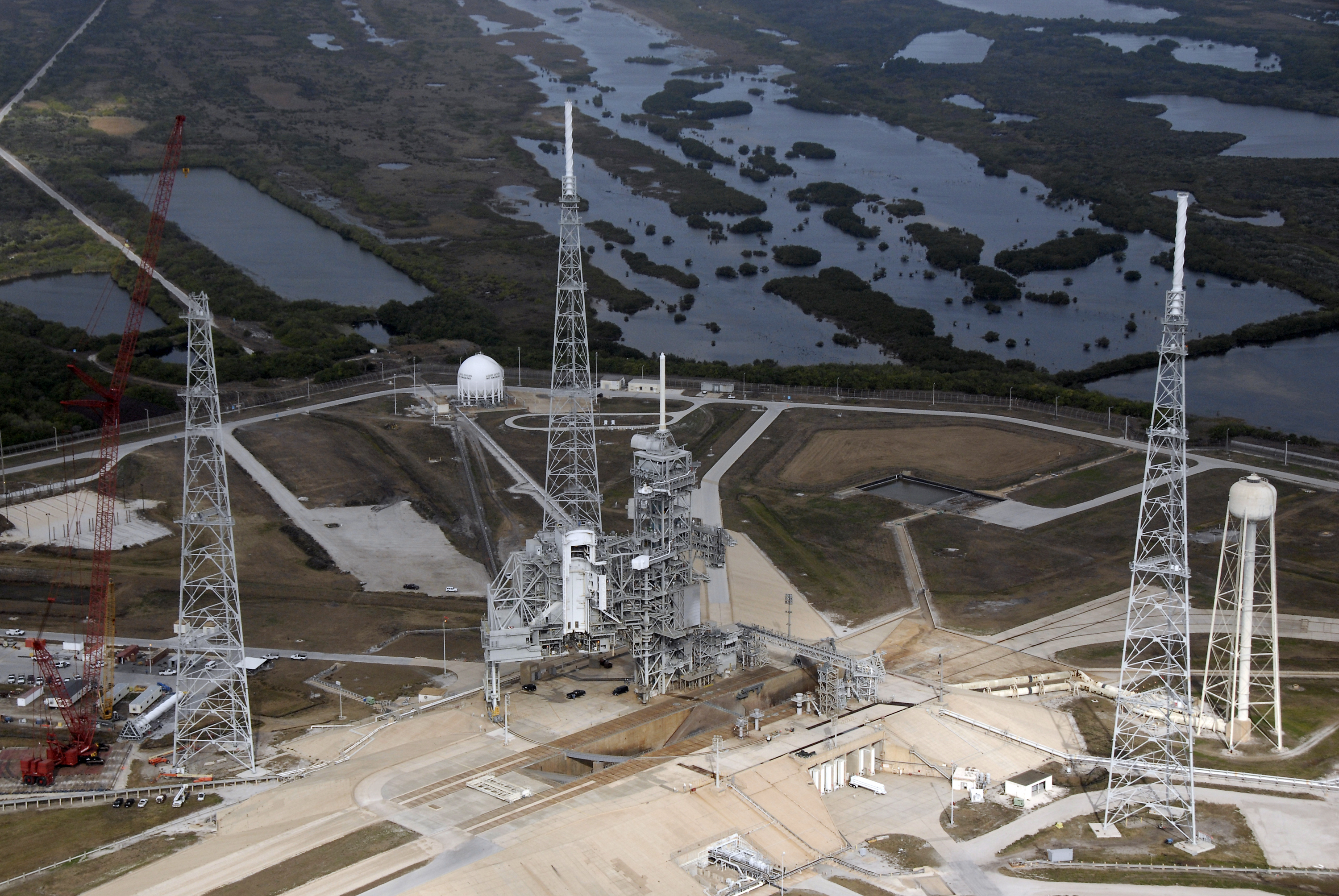 An aerial view of the newly erected lightning towers on Launch Pad 39B at NASA's Kennedy Space Center. The two towers at center and right contain the lightning mast on top; the one at left does not. At center are the fixed and rotating service structures that have served the Space Shuttle Program. In the foreground is the tower that holds 300,000 gallons of water used for sound suppression during a shuttle liftoff. The new lightning protection system is being built for the Constellation Program and Ares/Orion launches. Each of the towers is 500 feet tall with an additional 100-foot fiberglass mast atop supporting a wire catenary system. This improved lightning protection system allows for the taller height of the Ares I rocket compared to the space shuttle. Pad 39B will be the site of the first Ares rocket launch, including the Ares I-X test flight that is targeted for July 2009.